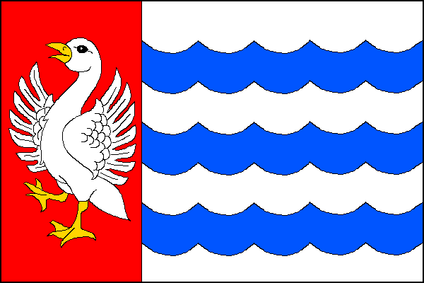 Municipal flag of Husinec , District Prague East, Czech Republic